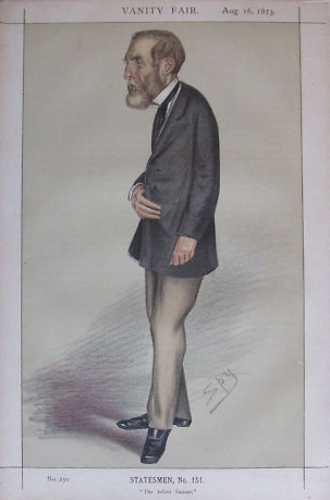 Caricature of Samuel Laing MP. Caption read "The infant Samuel".